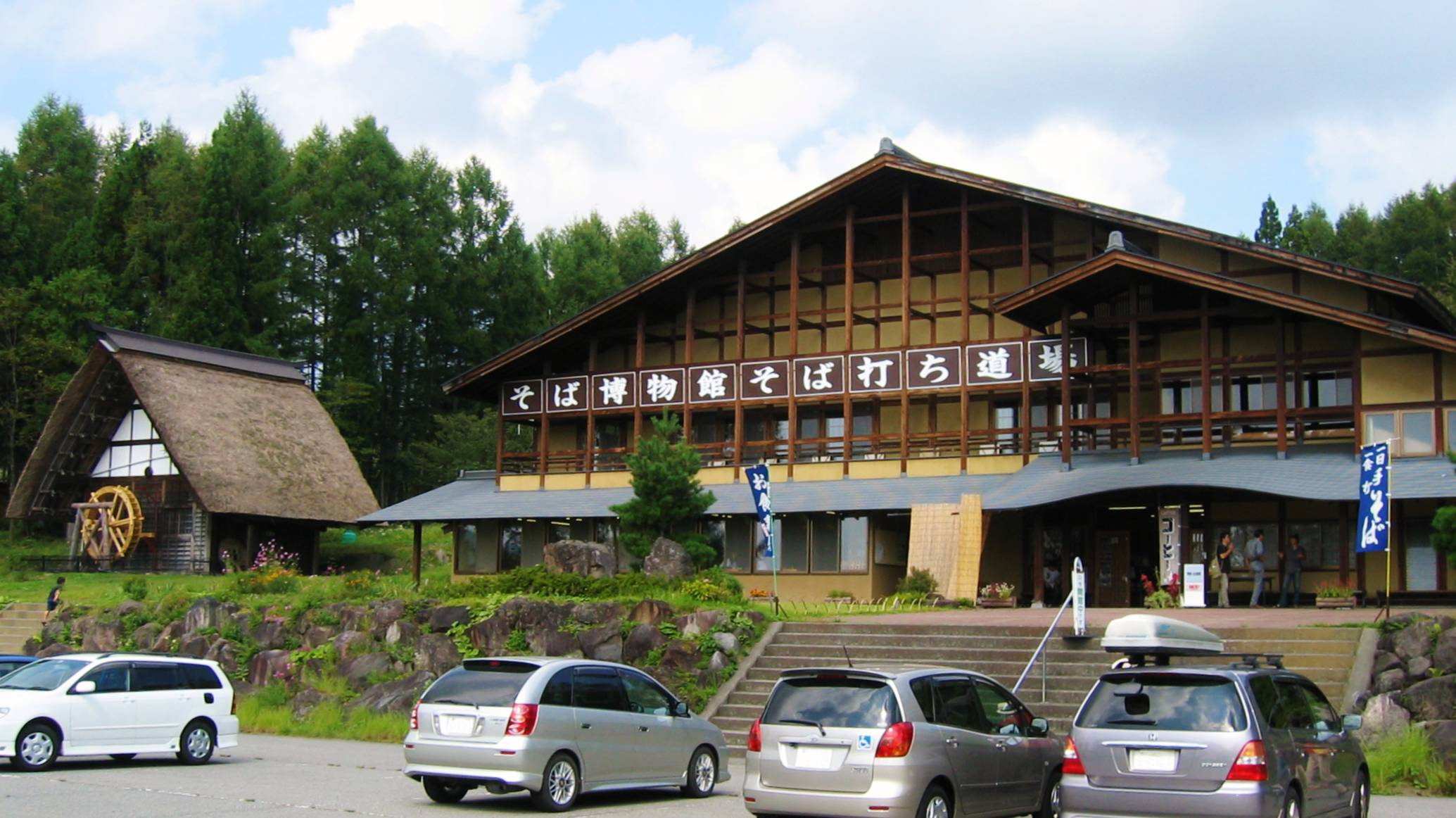 Togakushi Soba Museum.